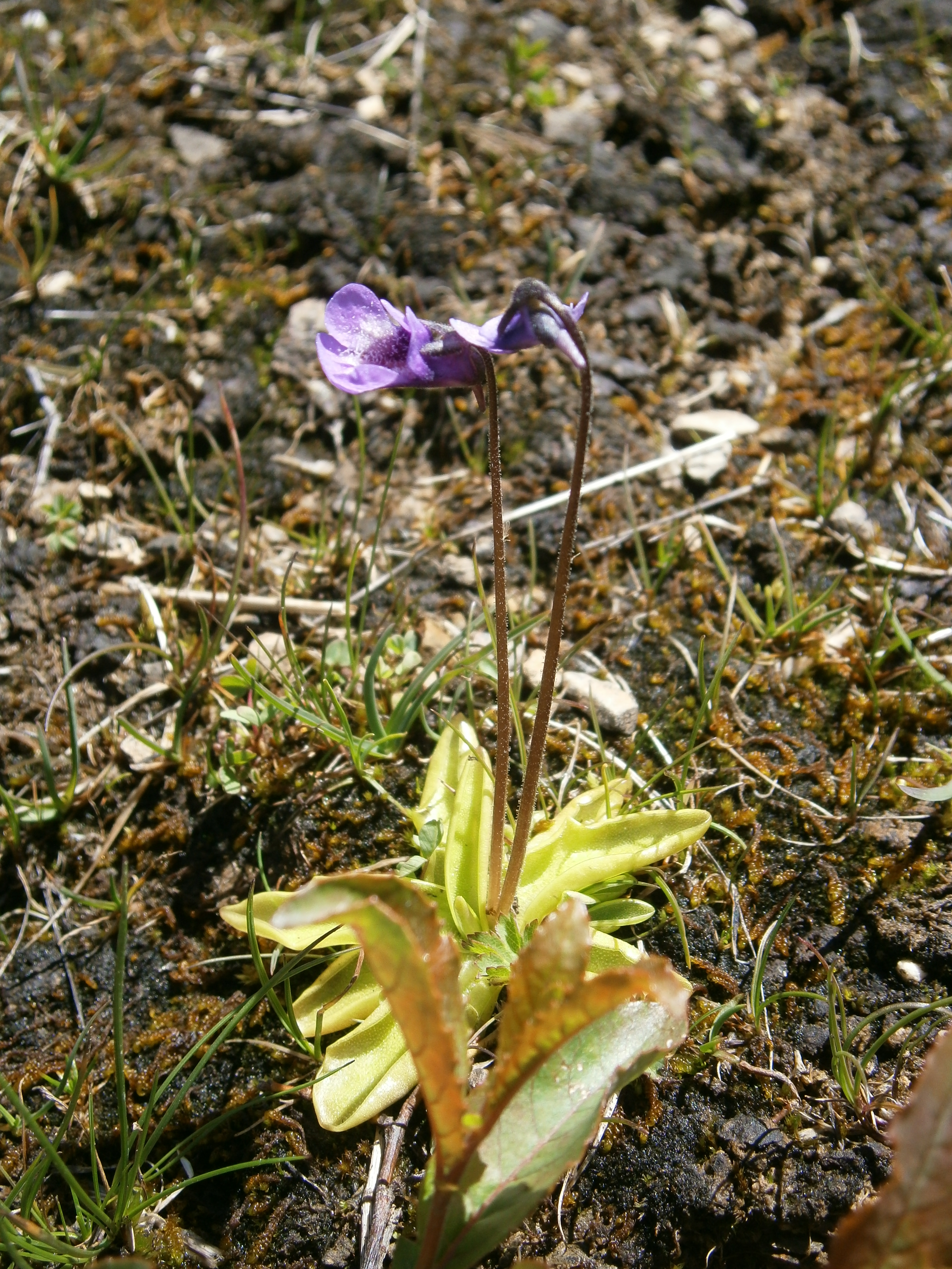 Pinguicula leptoceras